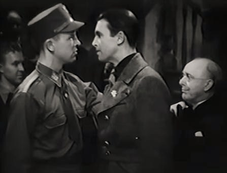 James Stewart (center) and Granville Bates (right) in The Mortal Storm - trailer (cropped screenshot)